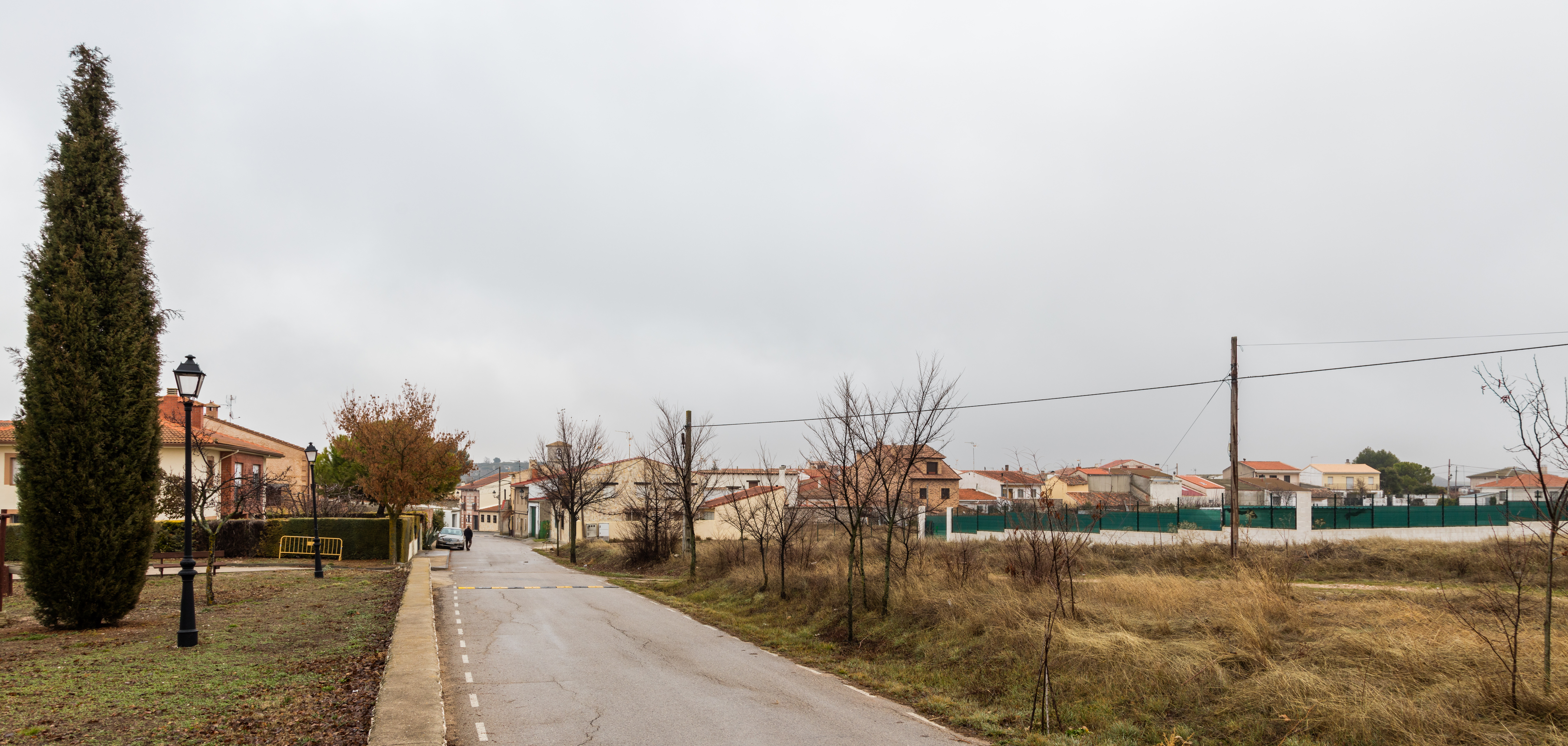 Aldenueva de Guadalajara, Guadalajara, Spain